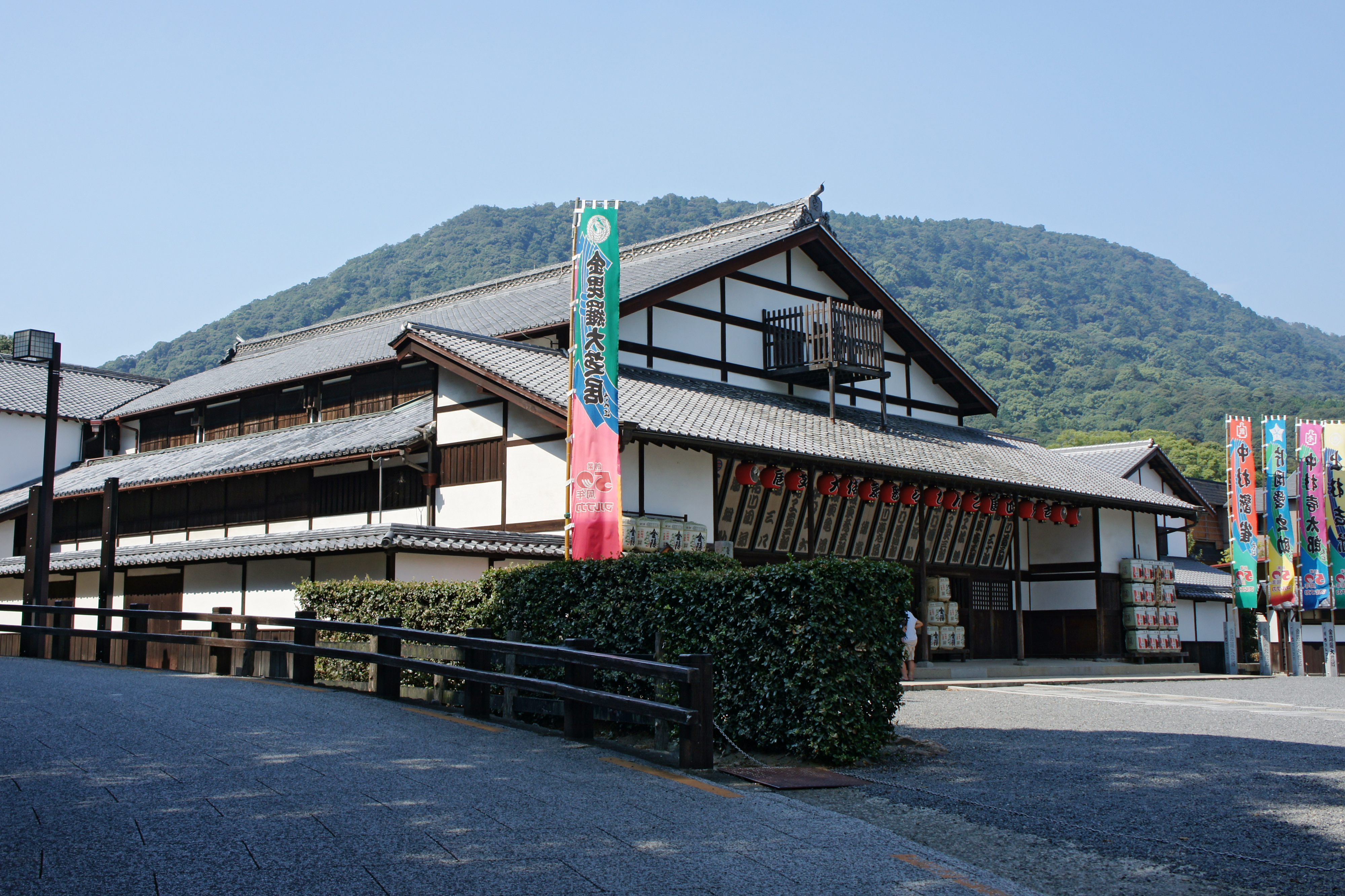 Former Konpira-ooshibai in Kotohira, Kagawa prefecture, Japan.